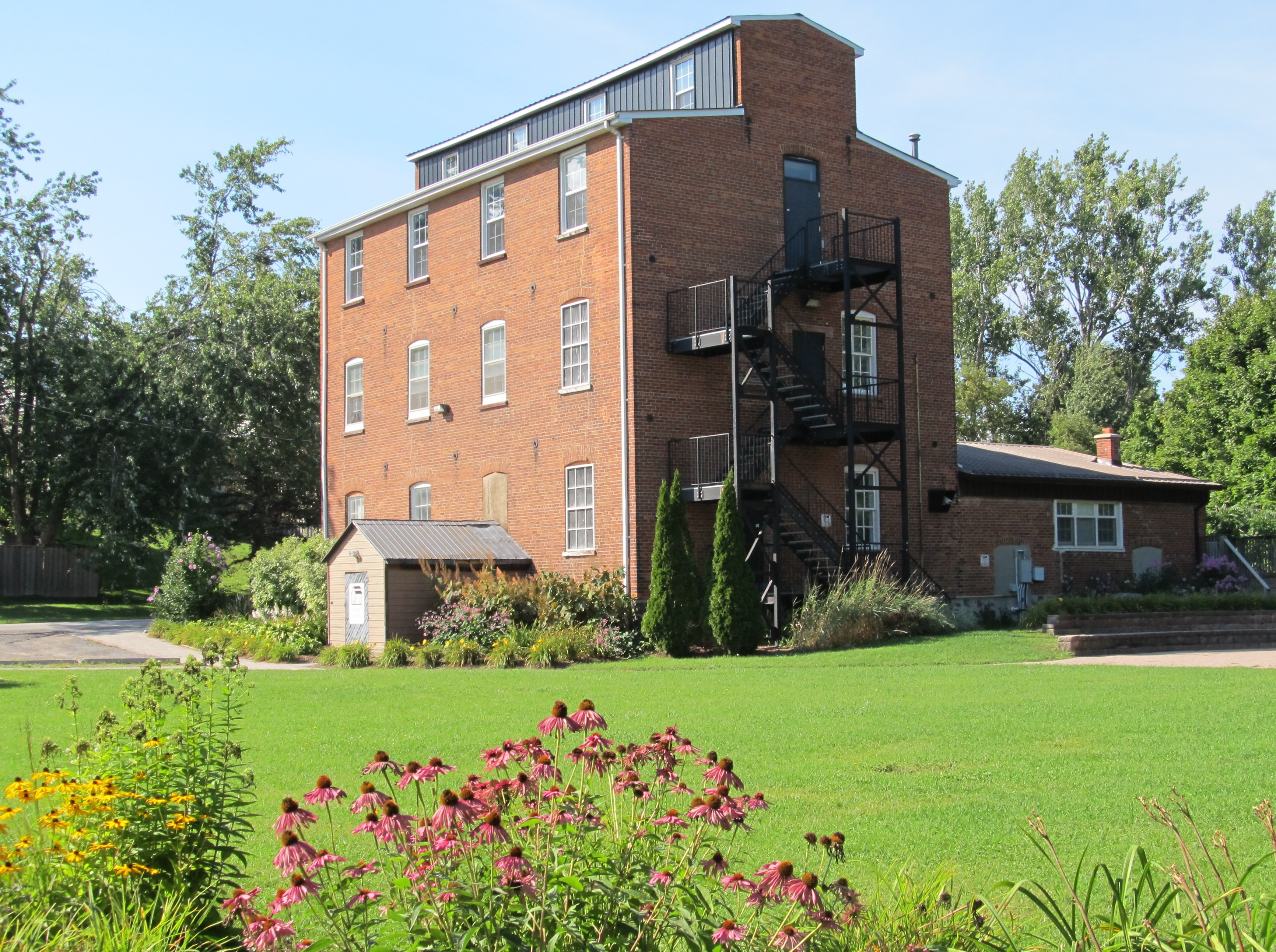 The historic Cream of Barley mill in Bowmanville, Ontario, Canada, now in use as the Visual Arts Centre